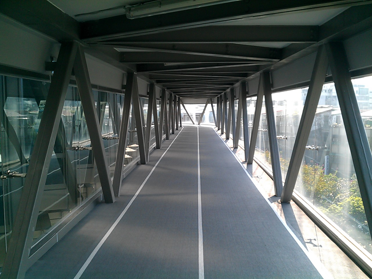 Indoor runway in Xinzhuang Civil Sports Center 中文（台灣）: 新莊國民運動中心室內跑道